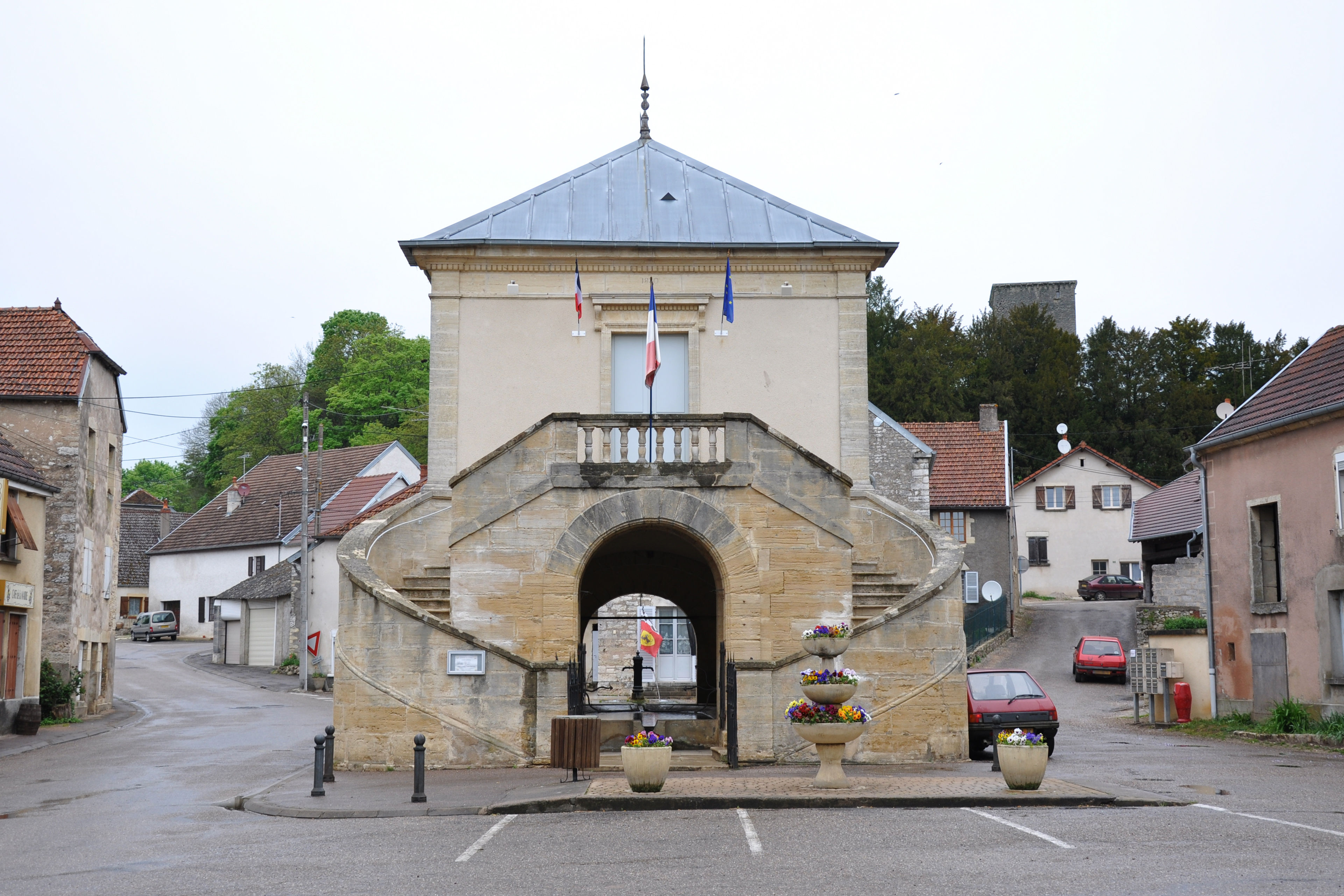 Town hall and wash house of Beaujeu-Saint-Vallier-Pierrejux-et-Quitteur, built in 1830 by Louis Moreau.